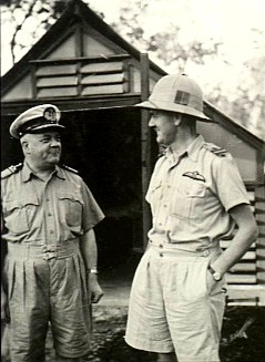 Darwin area, NT. c. 1943. Air Commodore F. M. Bladin, Air Officer Commanding North-Western Area, RAAF (right), in conversation with a senior Dutch Naval officer.